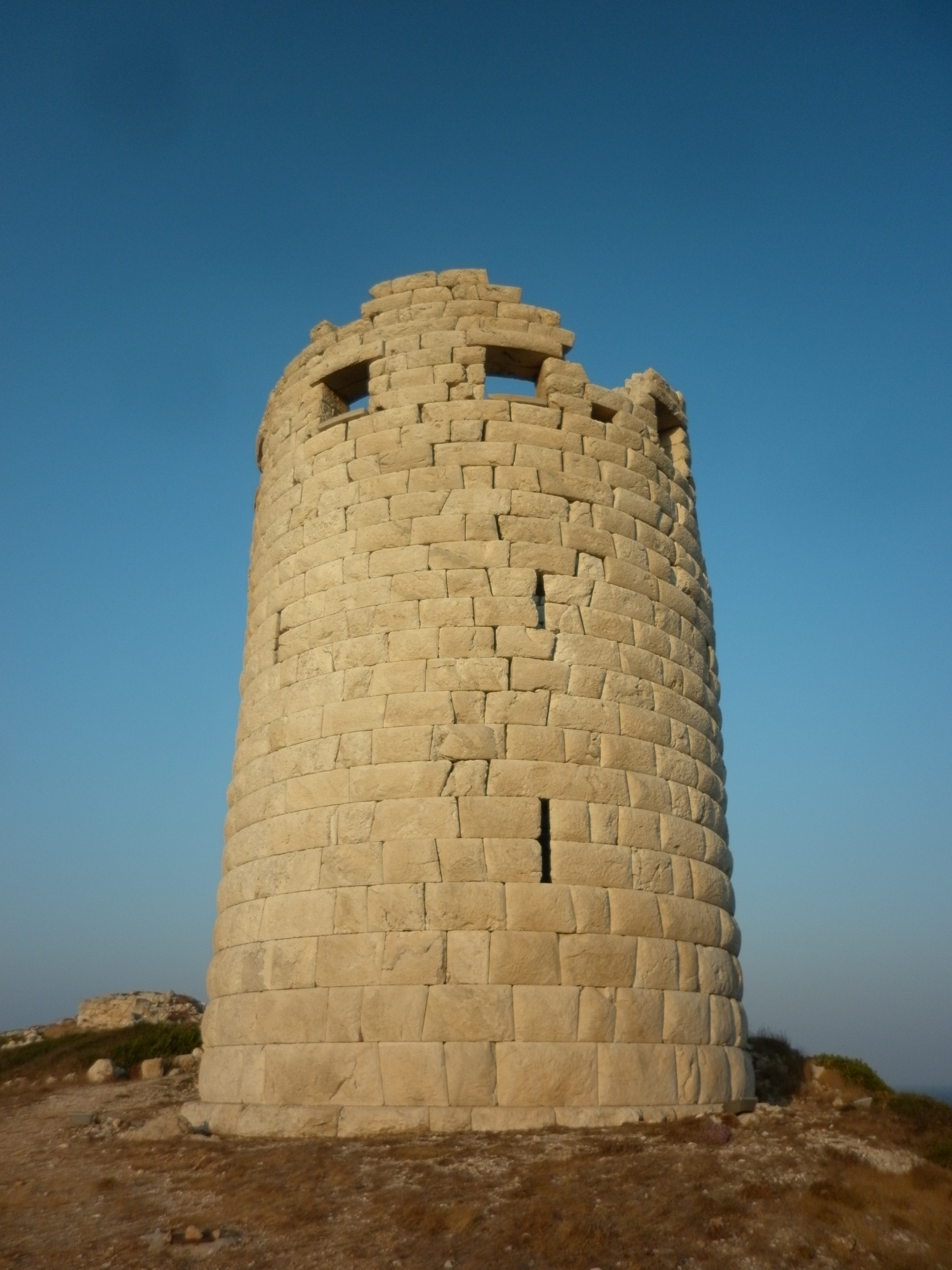 This is a photography of Natura 2000 protected area with ID GR4120004